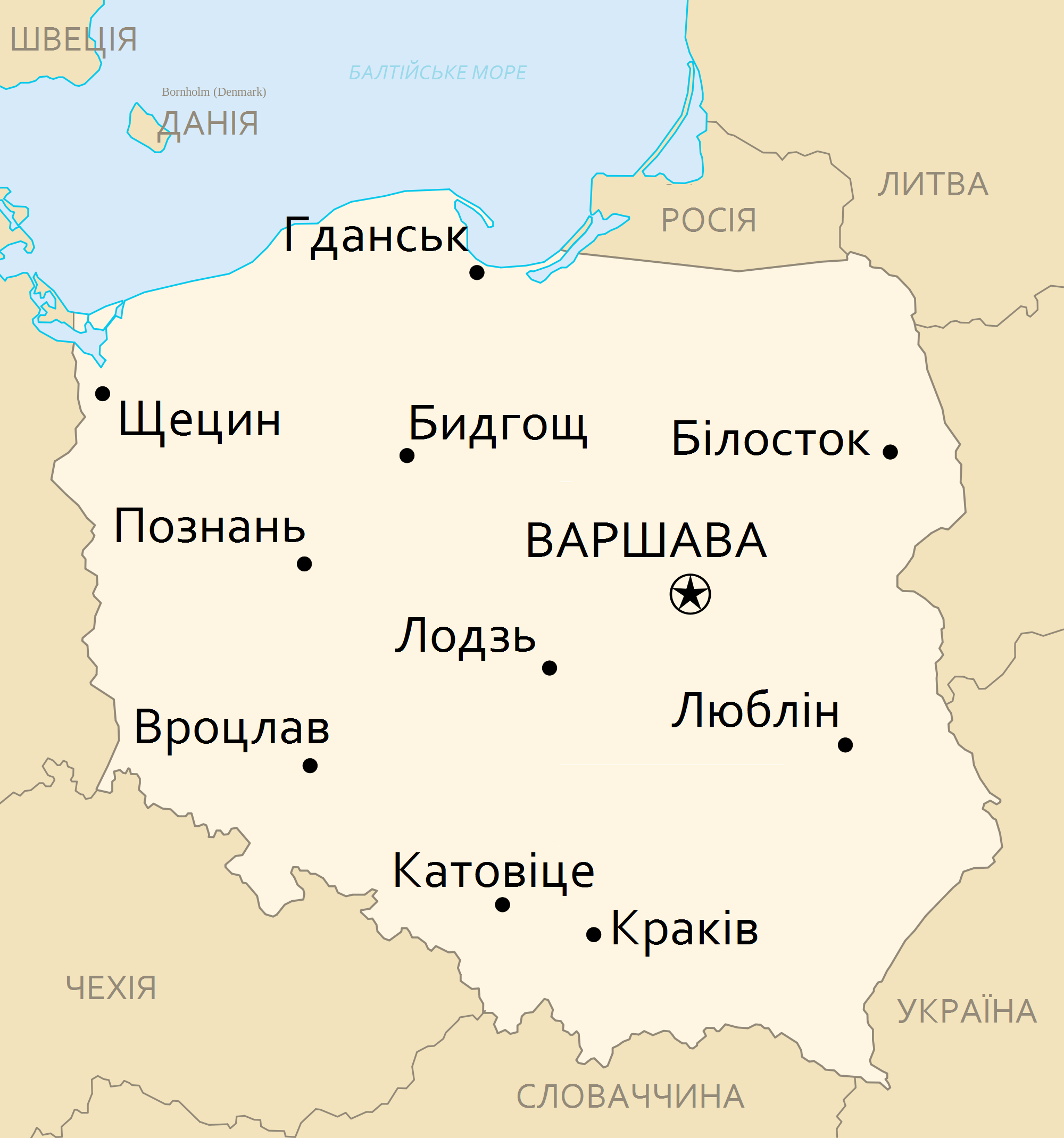 Мапа Польщі українською